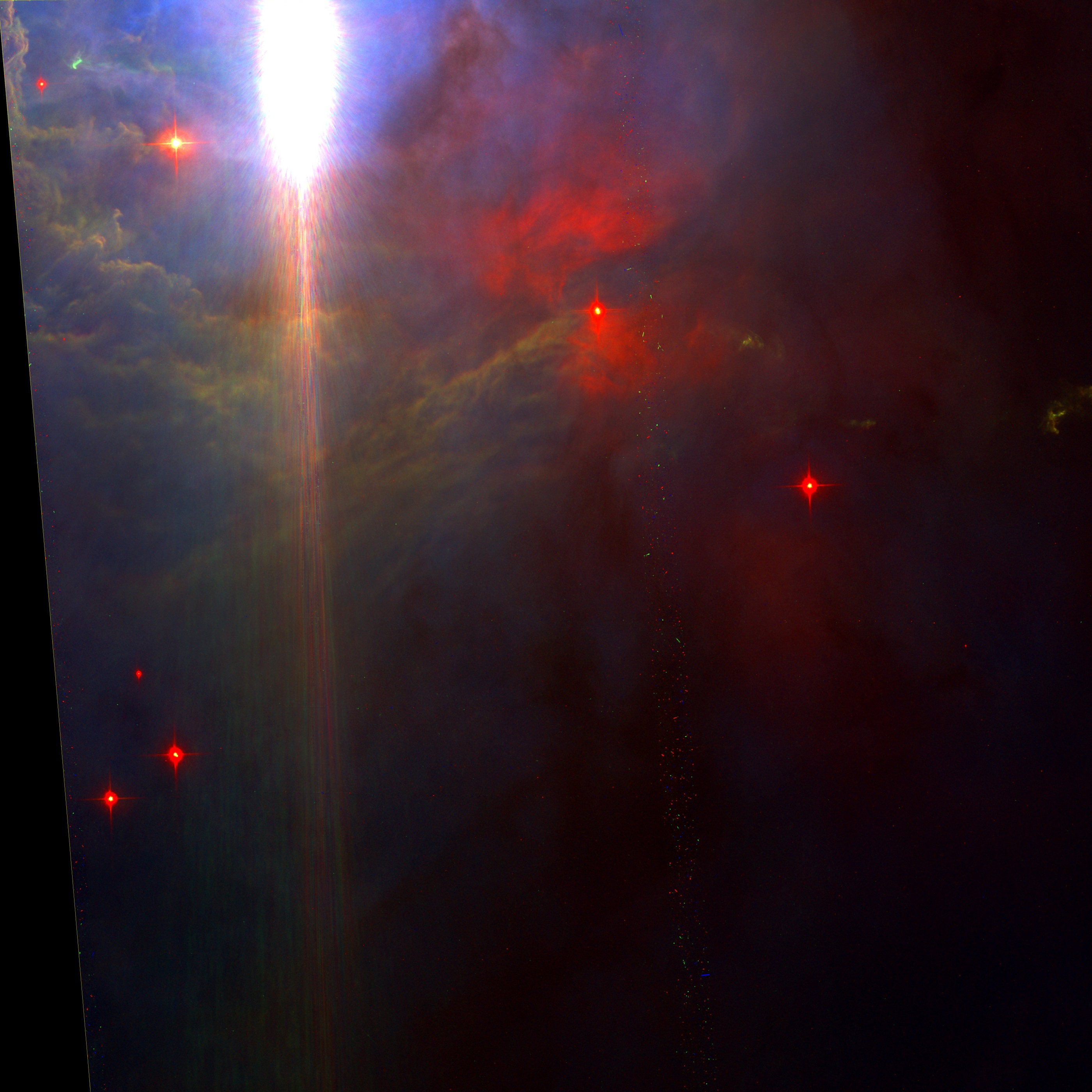 South part of reflection nebula NGC 2023 3′ view by Hubble Space Telescope The image created using WikiSky's image cutout tool out of Hubble Space Telescope data. Source url: [1] Hubble source data: [2] Related images: Image:NGC 2023 DSS2.jpg